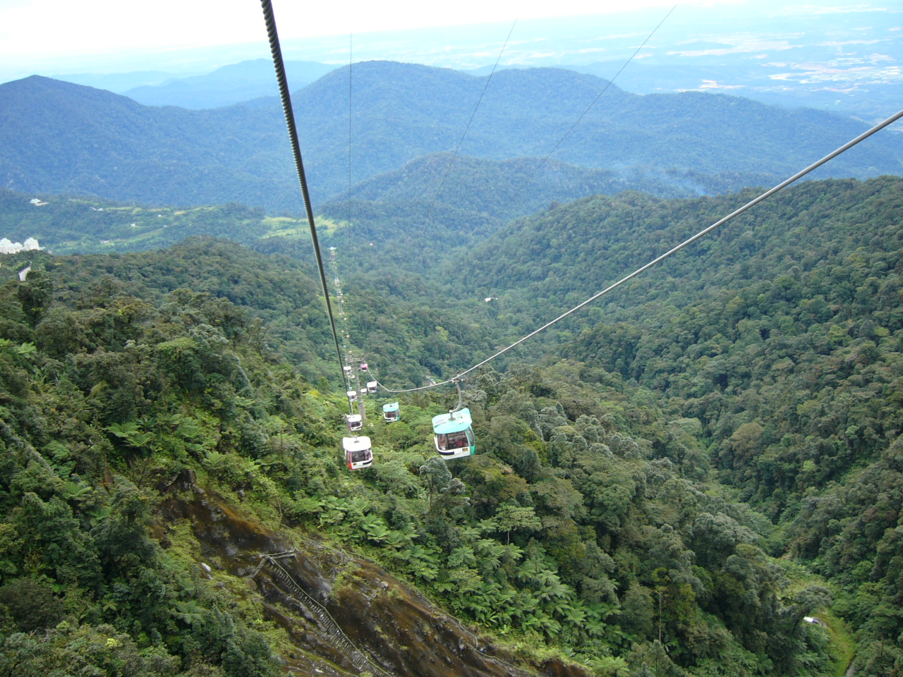 Genting Highland Malaysia